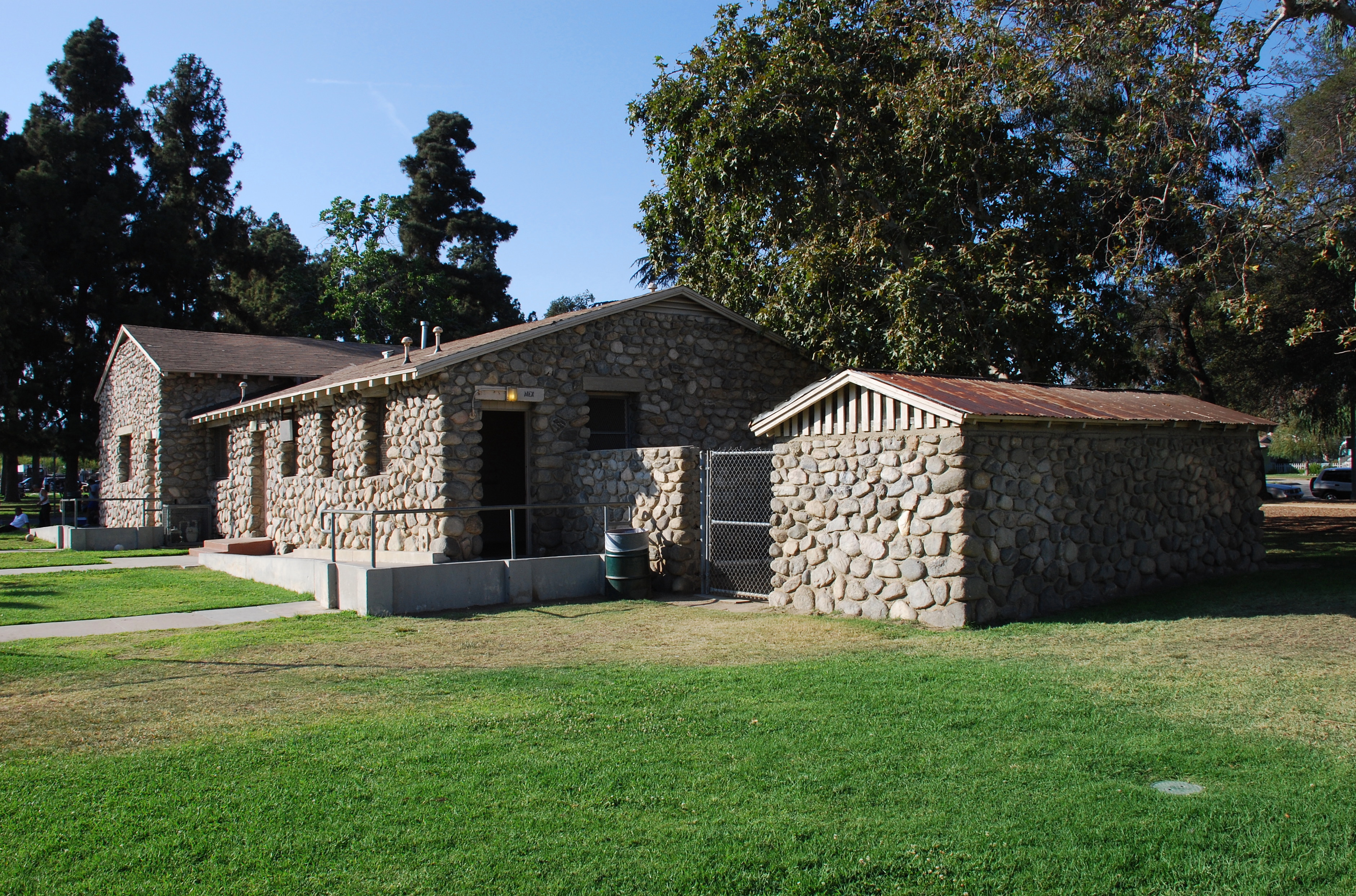 Los Angeles Historic-Cultural Monument No. 172, a recreation center built of native stone around 1930 by Native American stonemason Daniel Lawrence Montelongo (1895-1944) and helpers. Big Orange Landmarks